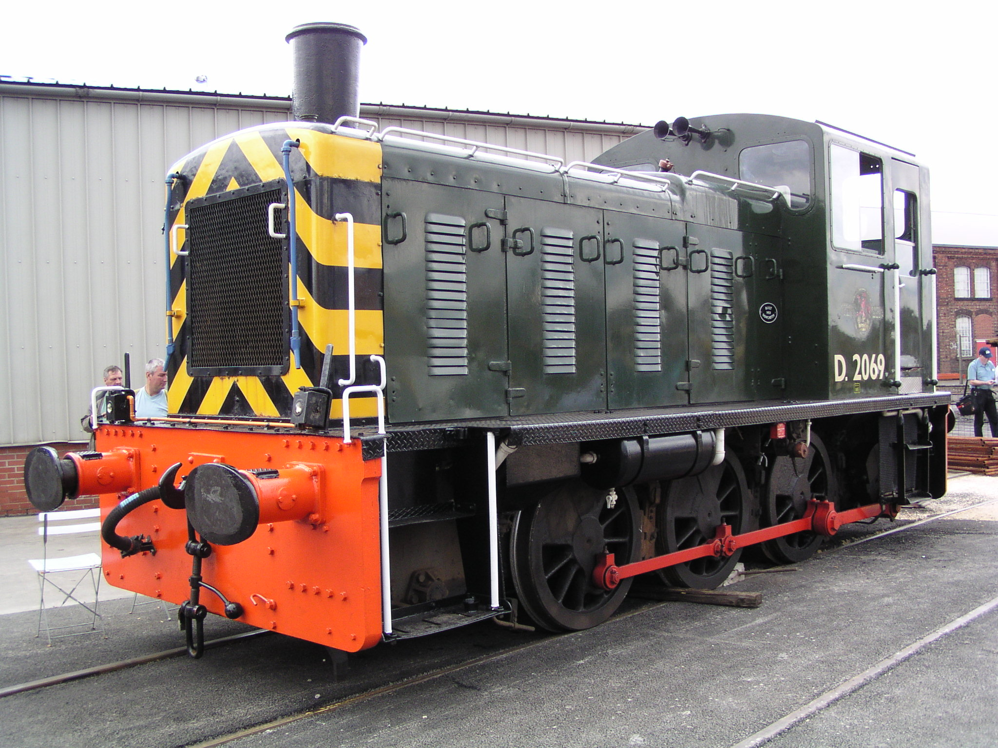 BR Class 03, no. D2069 at Doncaster Works on 27th July 2003.